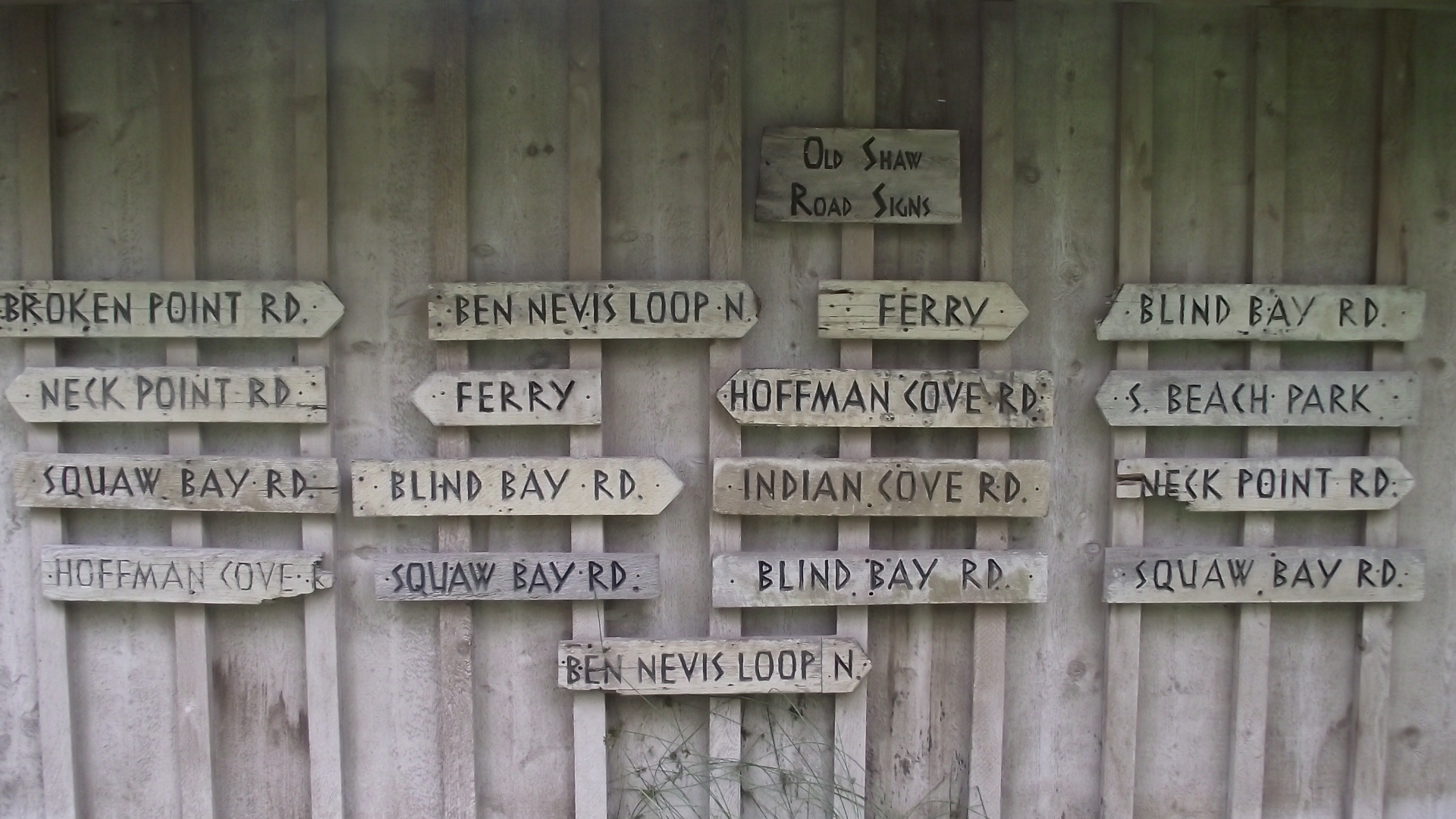 @ the library